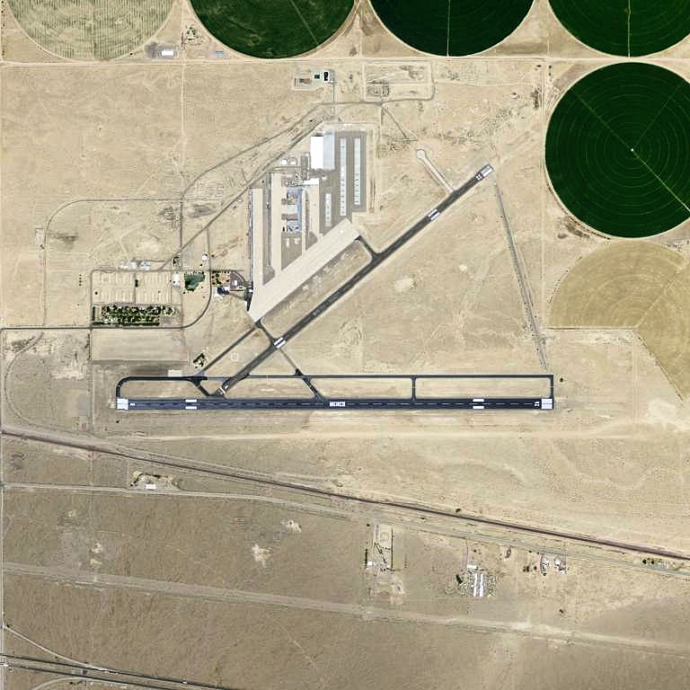 USGS digital orthophoto of Barstow-Daggett Airport in San Bernardino County, California, United States